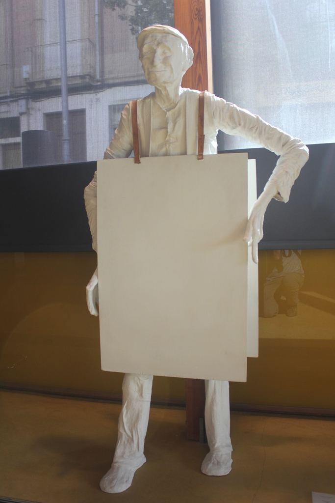 Francesc Angles, Home Anunci